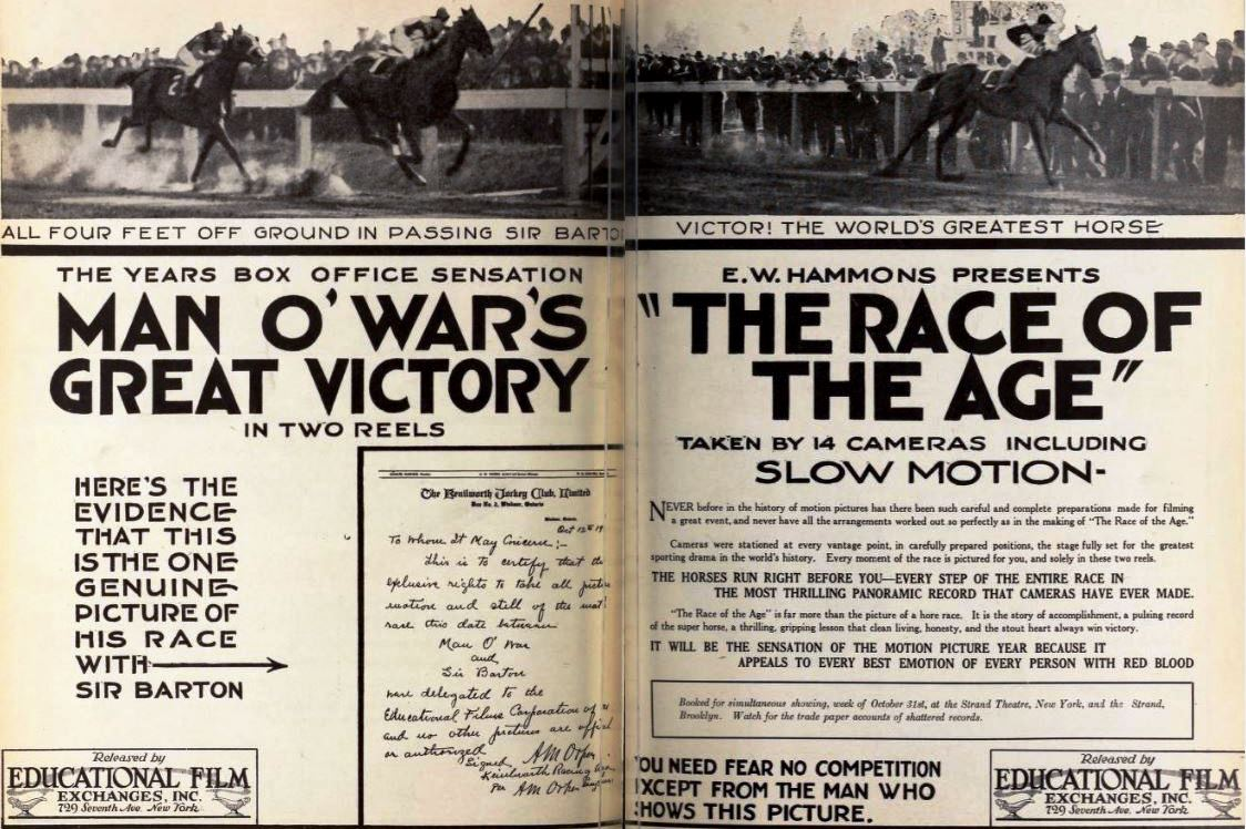 Advertisement for the American sports film The Race of the Age (1920), a documentary on the preparations for and running of the famed horse race between Sir Barton and Man O' War in 1920, on pages 20 and 21 of the November 6, 1920 Exhibitors Herald.